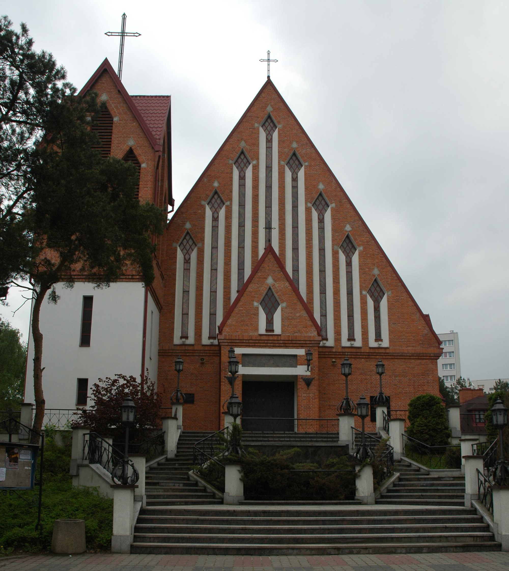 Legionowo - Parish of the Most Holy Body and Blood of Christ